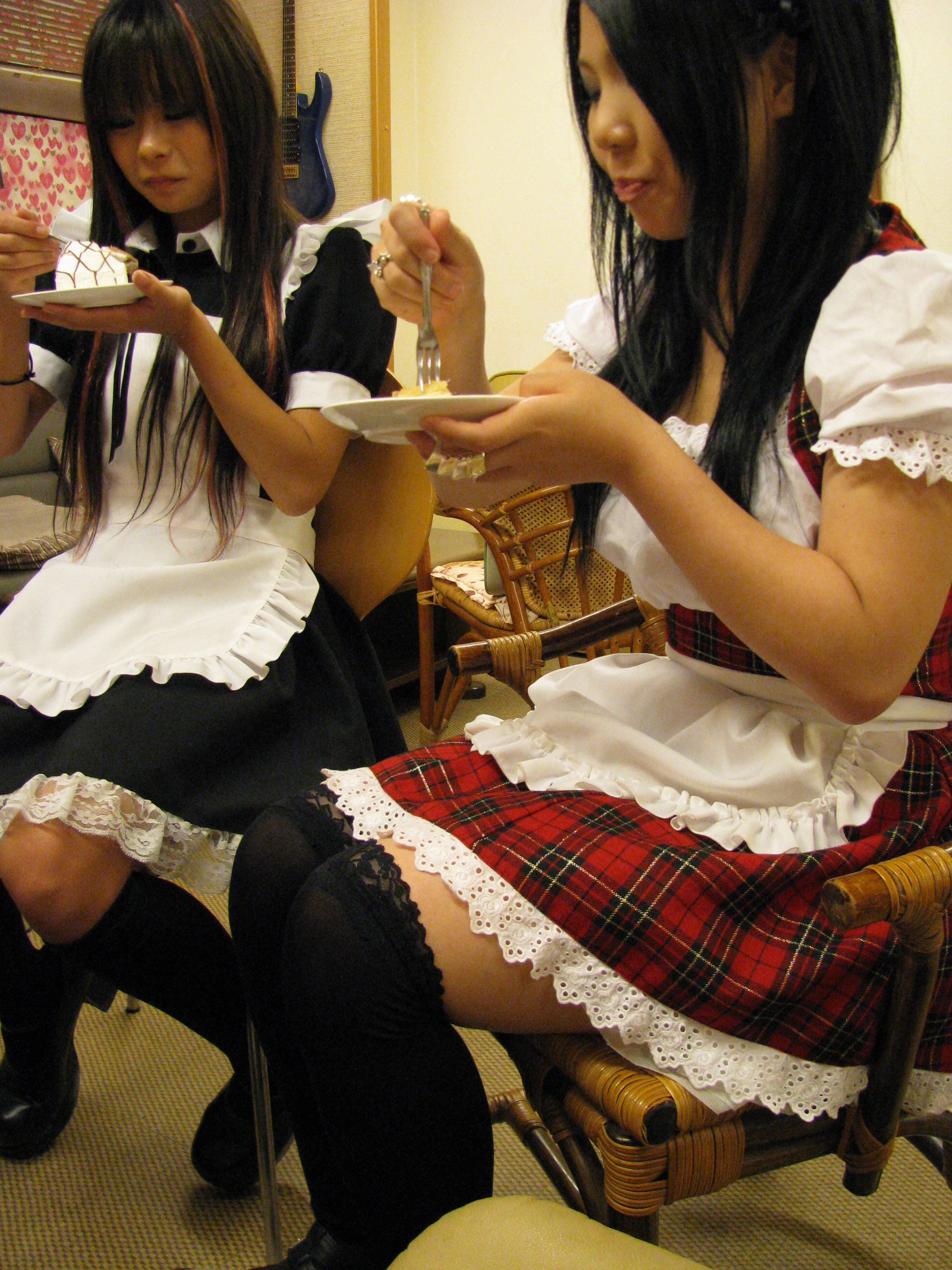 Inside a Maid Cafe in Den-Den Town, Osaka, Japan